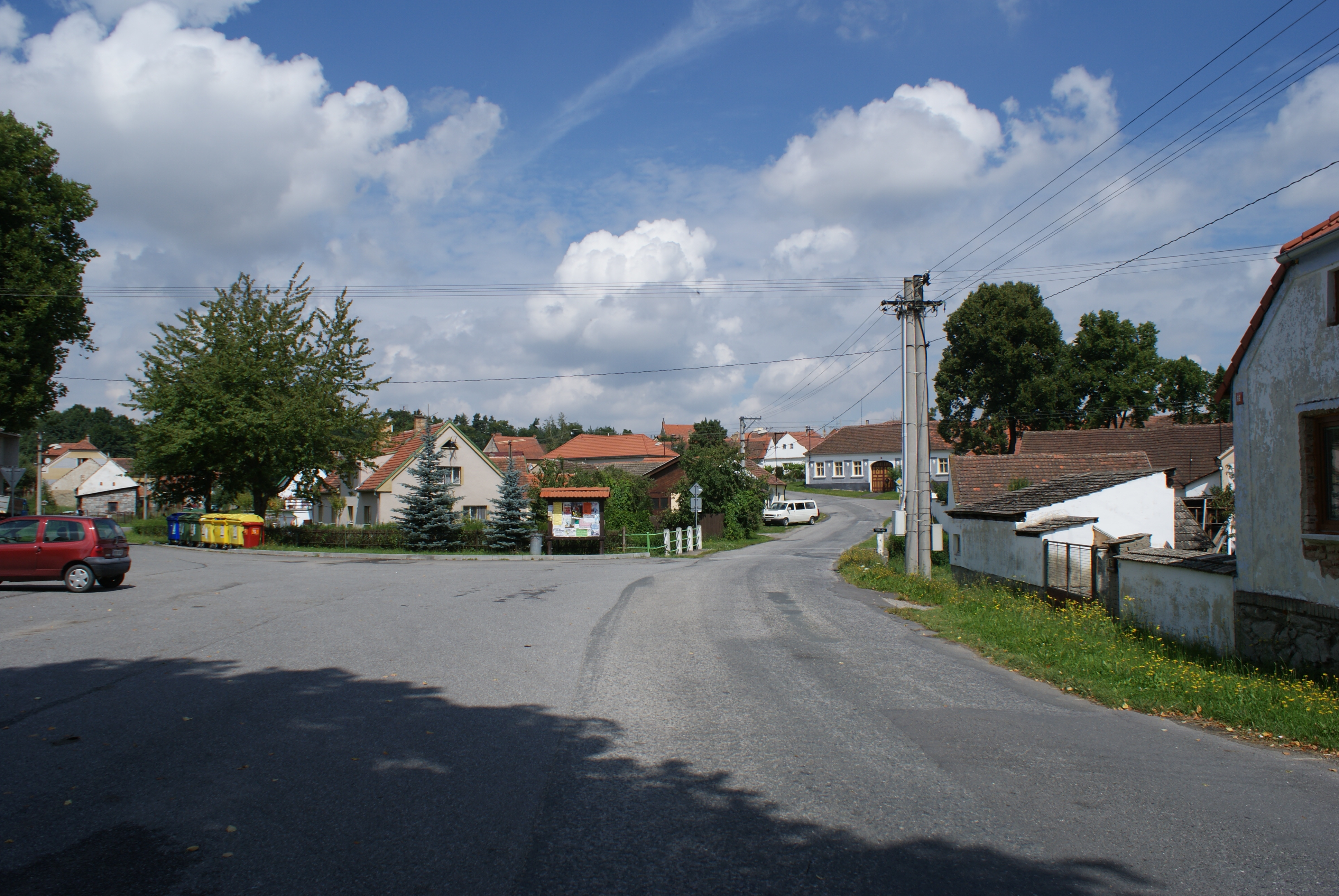 Velká Turná, a village in Strakonice District, Czech Republic.